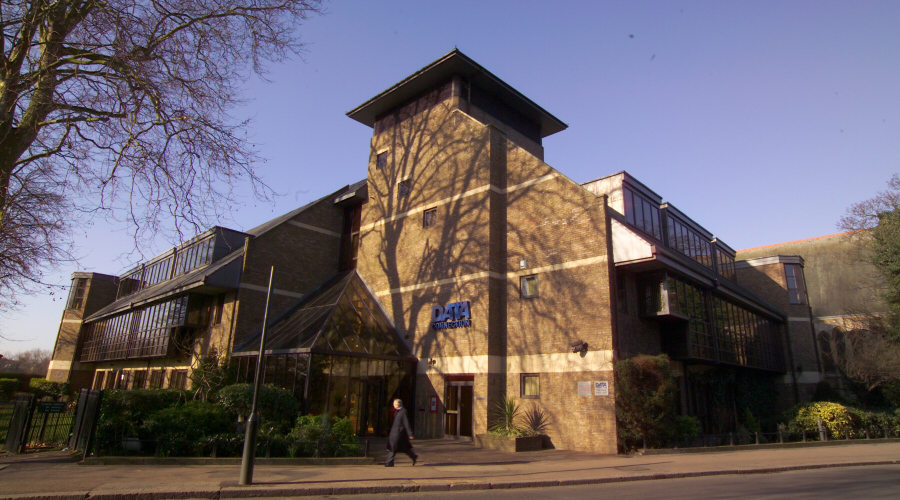 Image of Metaswitch Networks' Enfield, UK office